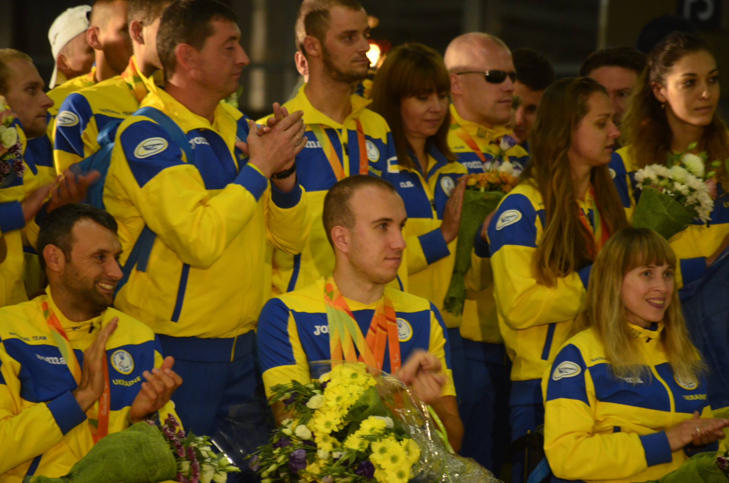 Ukrainian National Paralympic team welcomed at Boryspil (September 22, 2016)